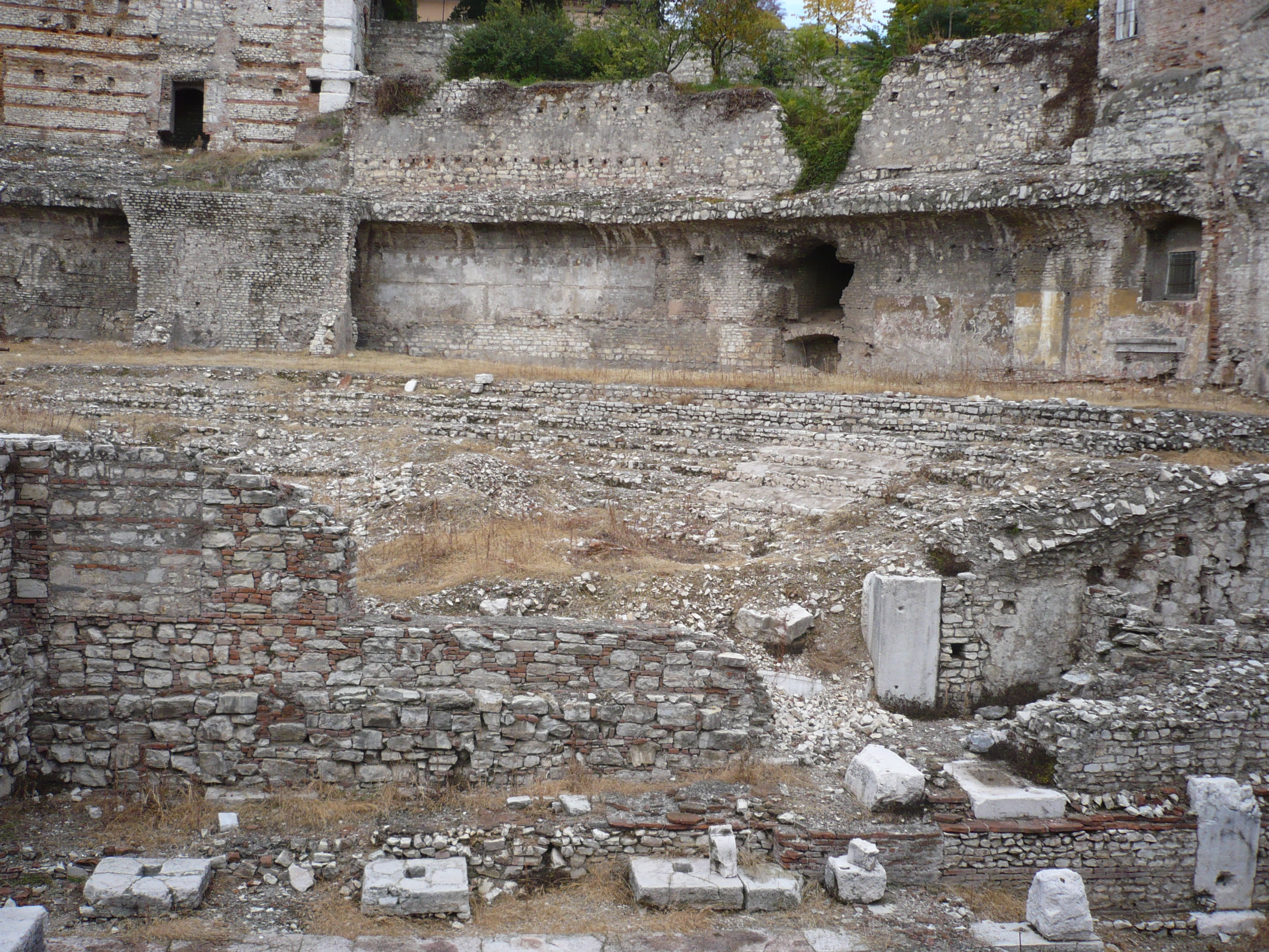 Ancient roman theatre in Brescia, Italy